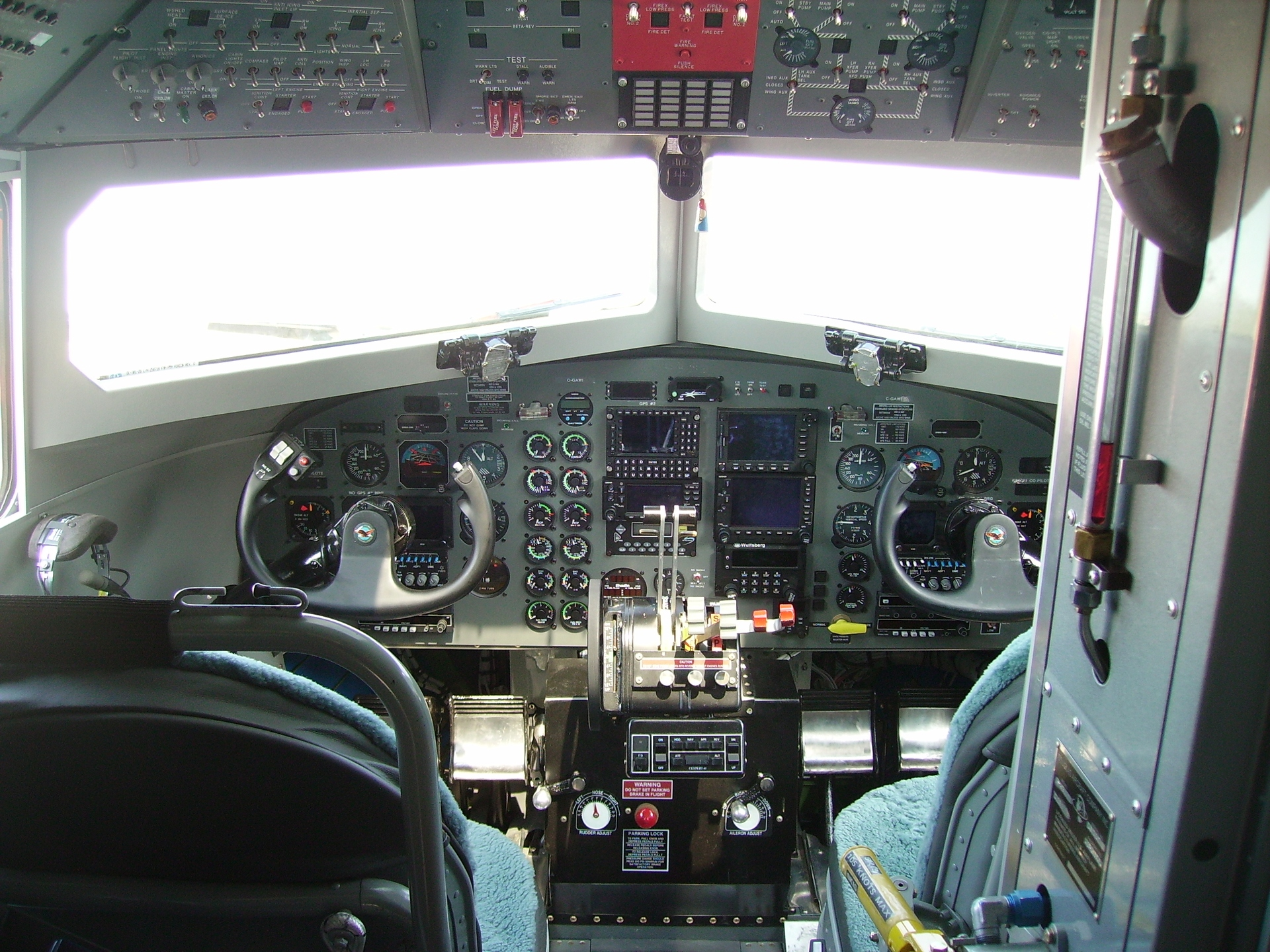 The Cockpit of the Polar 5, which is a Basler BT-67 aircraft used by the German Alfred Wegener Institute for Polar and Marine Research